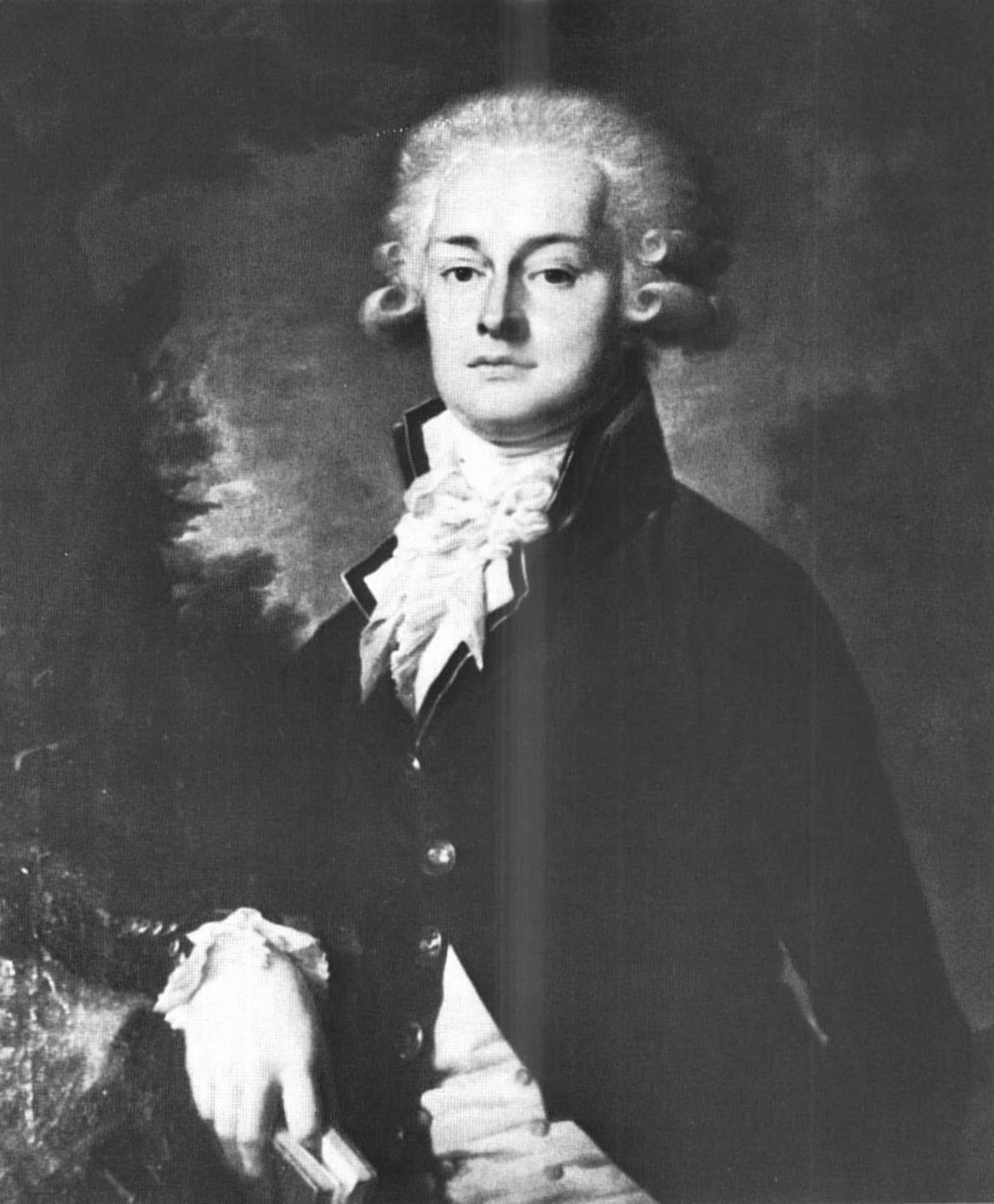 Contemporary portrait of Ludwig of Starhemberg (1762-1833)